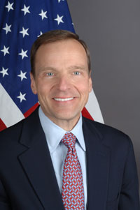 Robert A. Bradtke. As of 2008, the United States Ambassador to Croatia.